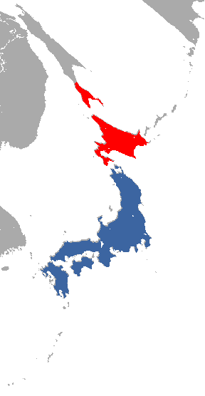 Japanese Weasel (Mustela itatsi) range (blue - native, red - introduced)